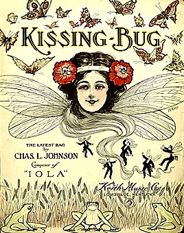 "The Kissing Bug" sheet music cover from 1909